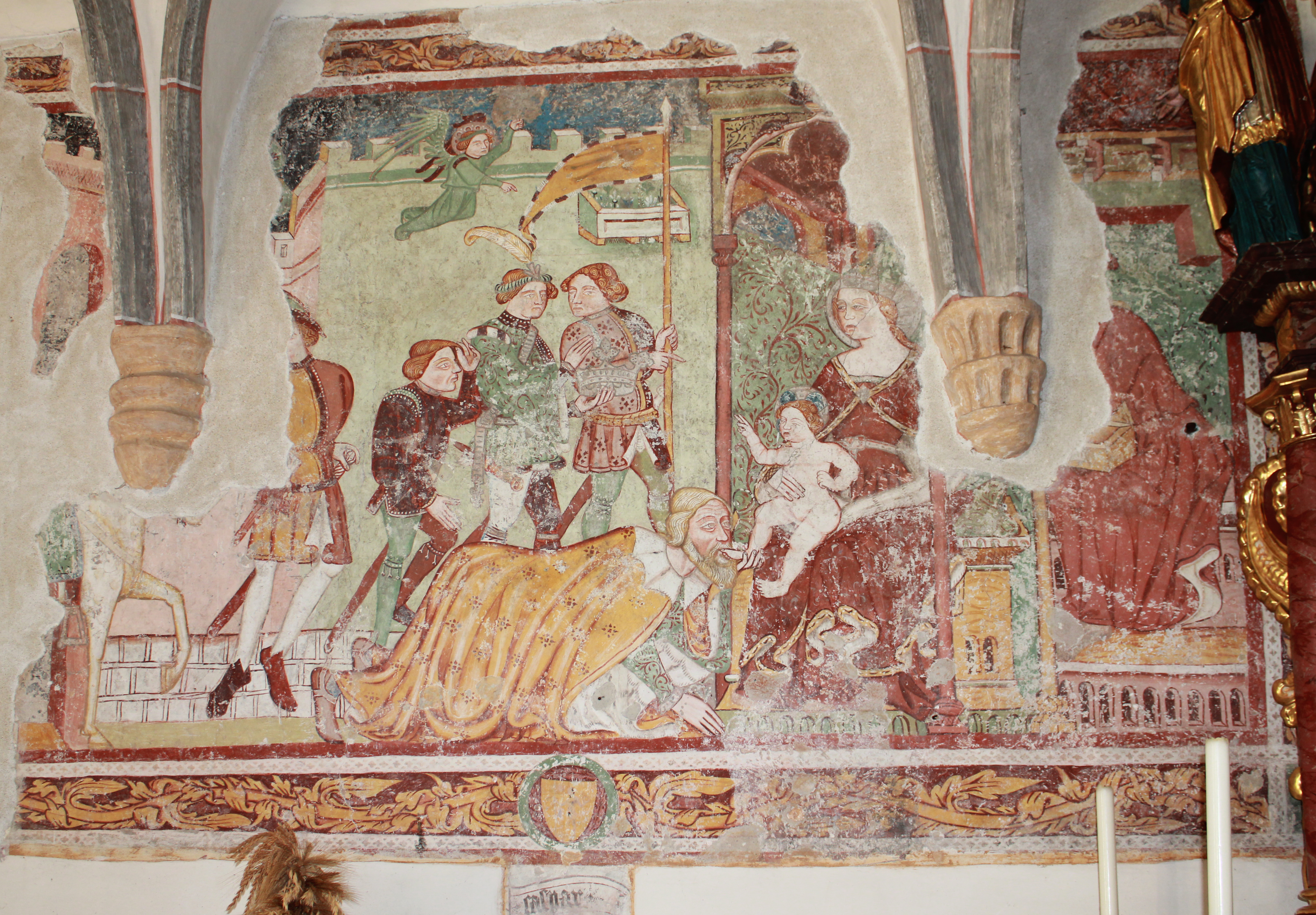 Parish church in Mellweg in the community of Hermagor